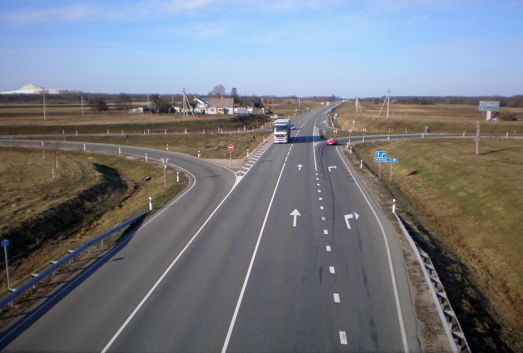 Via Baltica from Šeduva-Jonava road viaduct near Nociūnais.